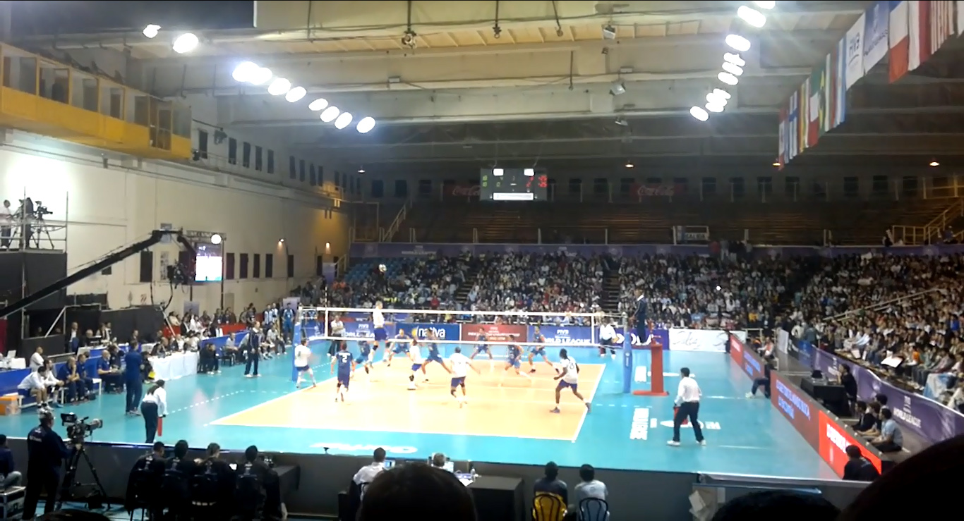 Estadio Delmi en la provincia de Salta